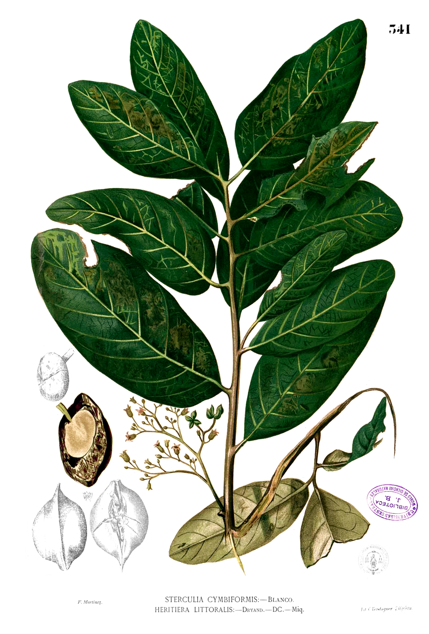 Heritiera littoralis Plate from book